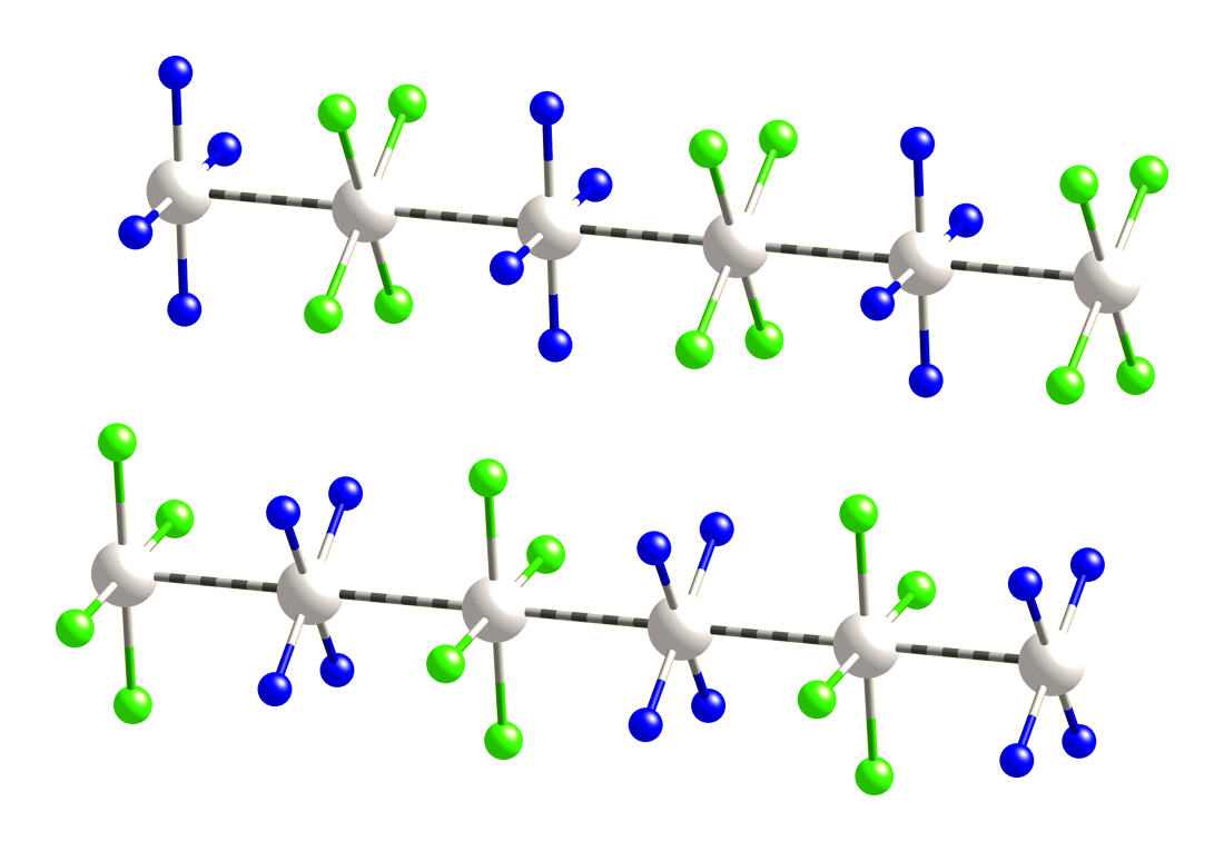 Ball-and-stick model of chains in the crystal structure of Magnus' green salt, [Pt(NH3)4][PtCl4]. Crystal structure from J. Am. Chem. Soc. (1957) 79, 3017–3020. Model constructed and image generated in CrystalMaker 8.1.